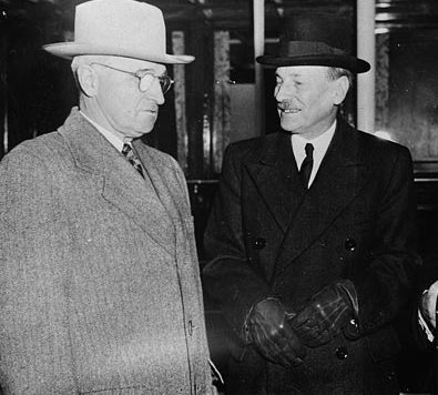 President Harry Truman and Rt. Hons. Clement Attlee and Mackenzie King boarding U.S.C.G. Sequoia for discussions about the atomic bomb